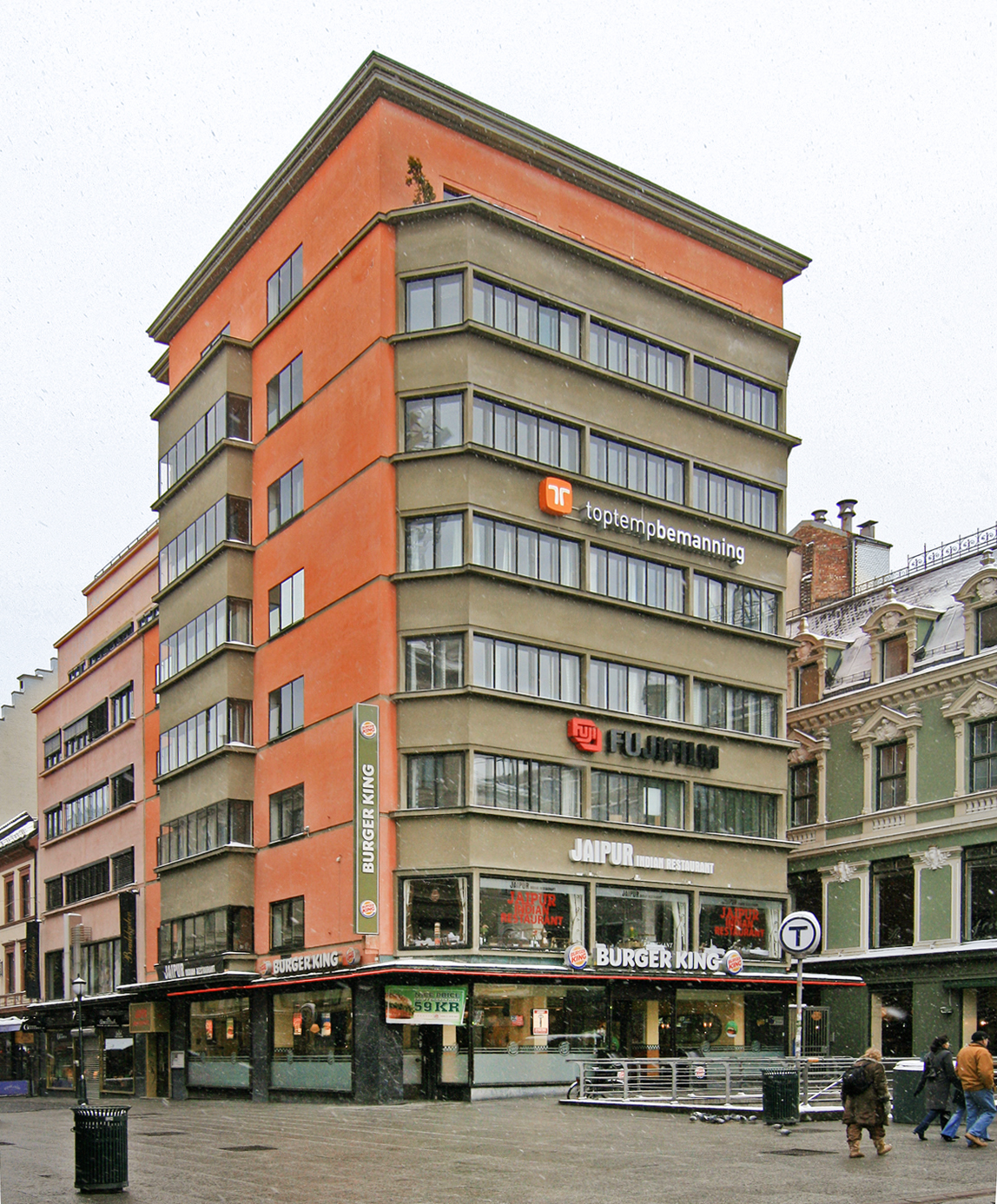 Horngården, Øvre Slottsgate 21/Karl Johans gate 18b-c, Oslo. Built 1929. Architect: Lars Backer.